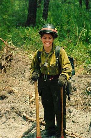 Wakulla, FL, June 25, 1998 -- Firefighter at the Holiday Fire. Photo by Liz Roll/ FEMA News Photo